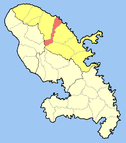 Location of Le Marigot within Martinique